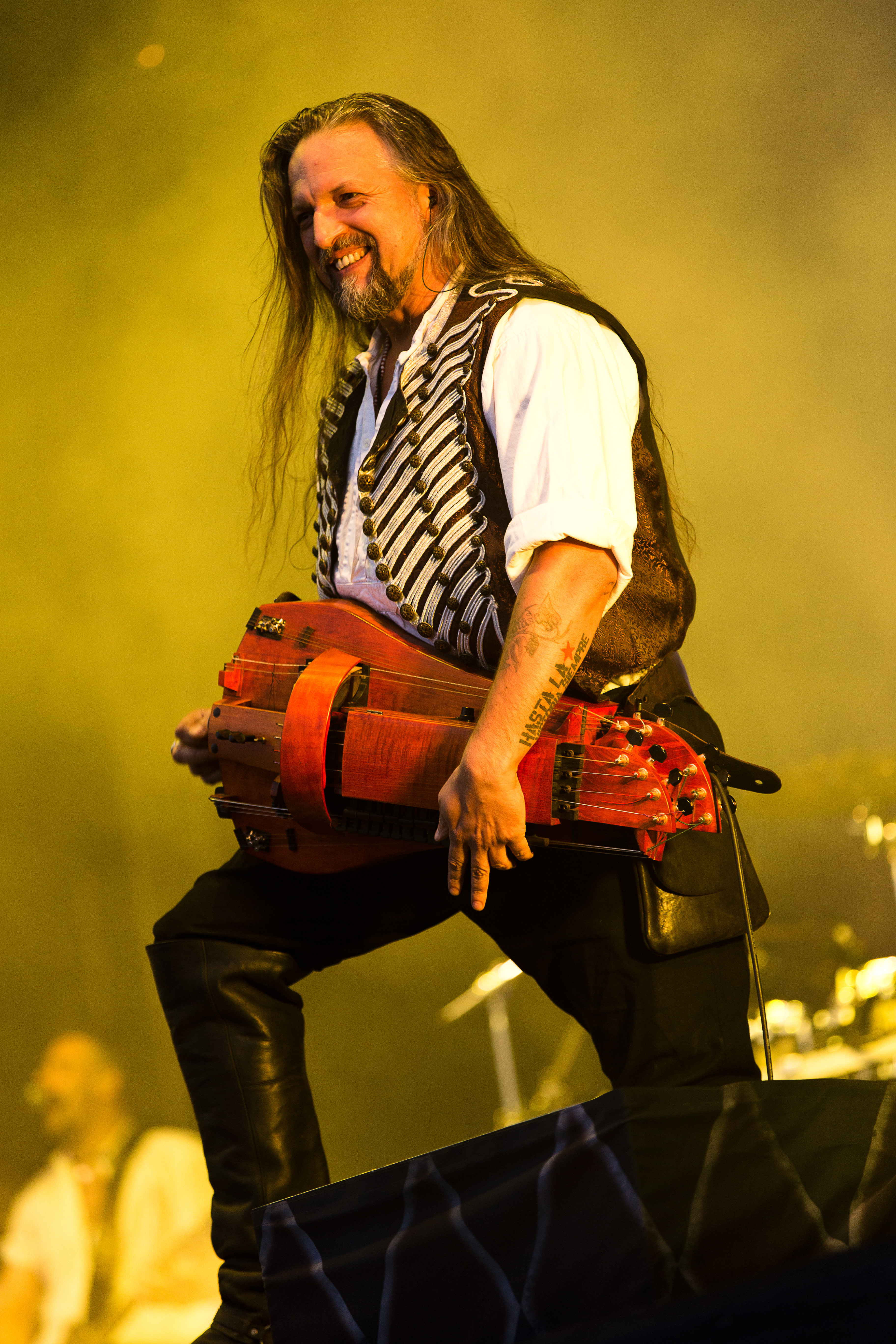 The German medieval folk rock band Saltatio Mortis at the Rockharz Open Air 2016 in Ballenstedt/Germany.